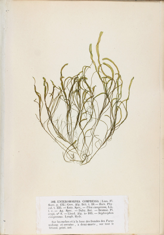 « Enteromorpha compressa » = Ulva compressa